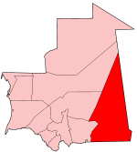 Map of Mauritania showing Hodh ech Chargui region.